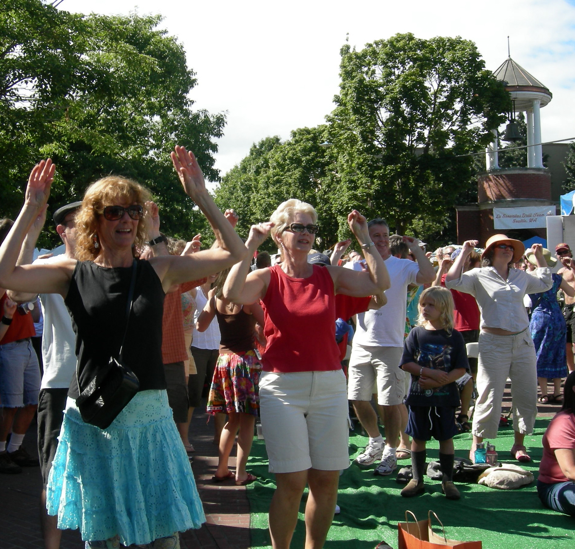 Doing the "chicken dance" at the Ballard Seafood Fest (in the Ballard neighborhood of Seattle, Washington), dancing to Texas band Brave Combo.